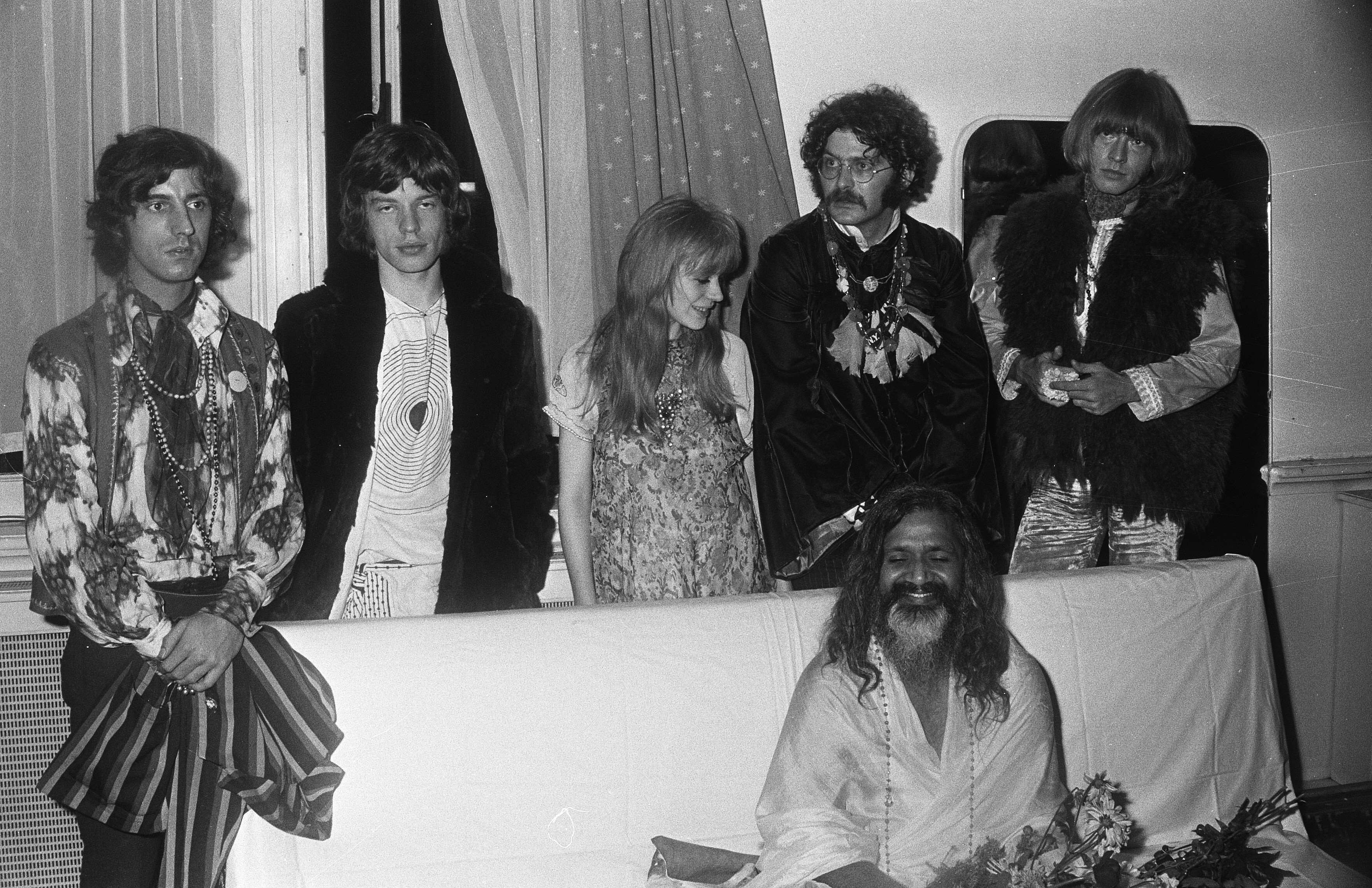 Concertgebouw Amsterdam, 1 Sept. 1967. Standing, from left to right: Michael Cooper, Mick Jagger, a pregnant Marianne Faithfull, Shepard Sherbell, Brian Jones. Sitting:Maharishi Mahesh Yogi. Photo by Ben Merk (ANEFO)